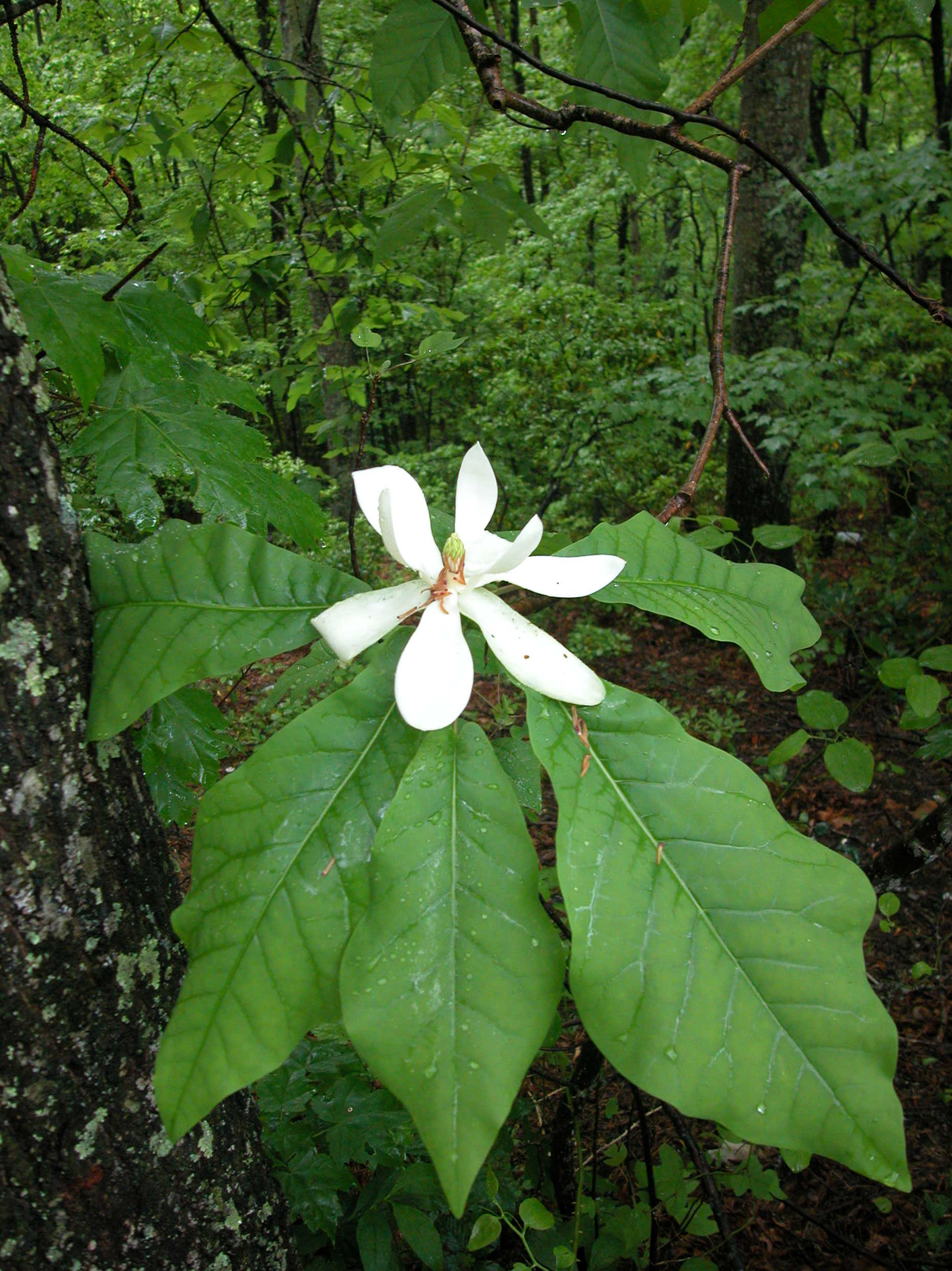 Magnolia macrophylla leaves and flower, low mountains of North Carolina